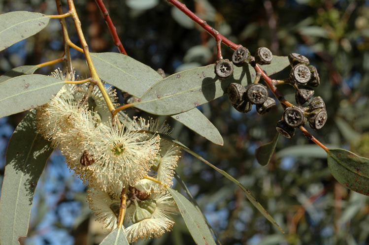 Fruit of Eucalyptus lesouefii in the Harry McCormick Arboretum, Mathoura, New South Wales